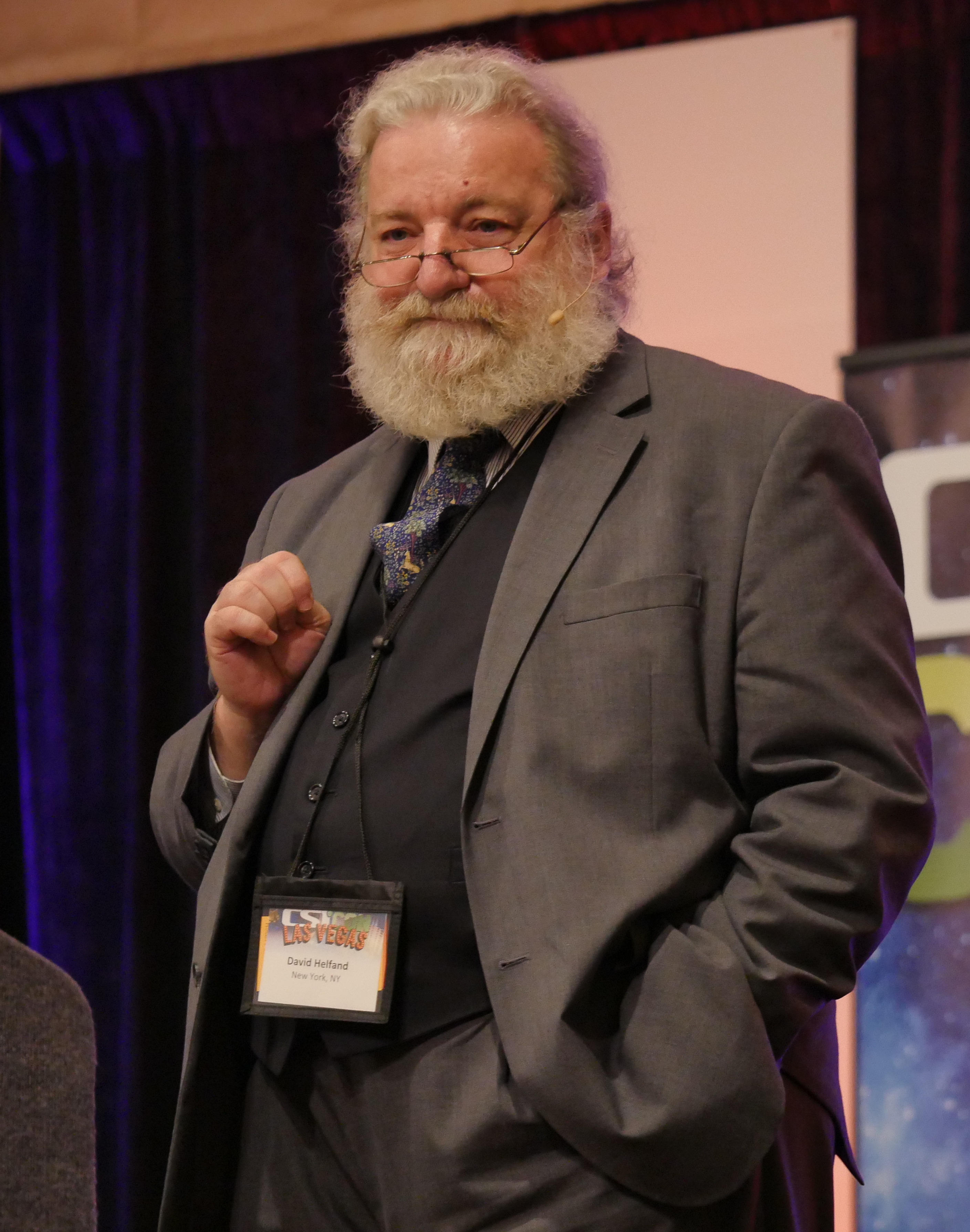 David Helfand Surviving the Misinformation Age CSICon 2016